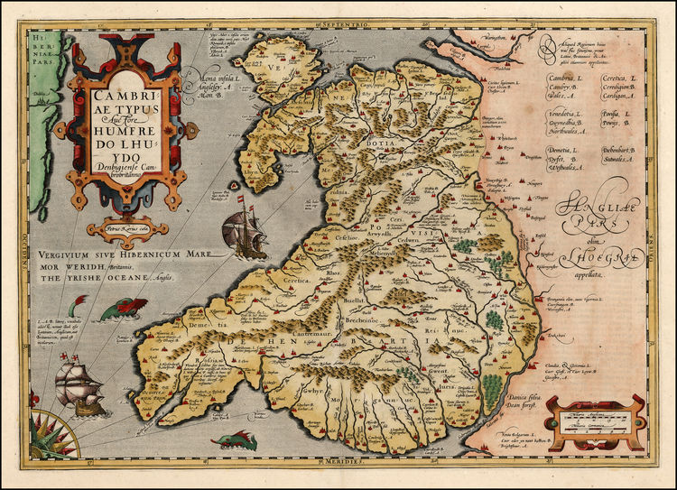 A 1606 version of Humphrey Llwyd's 1573 map of Wales, Cambriae Typus Edited by Peter Kaerius.